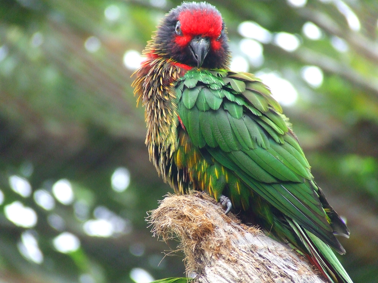 Yellow-streaked Lory (Chalcopsitta sintillata). Photo taken at Fuengirola Zoo in Spain.